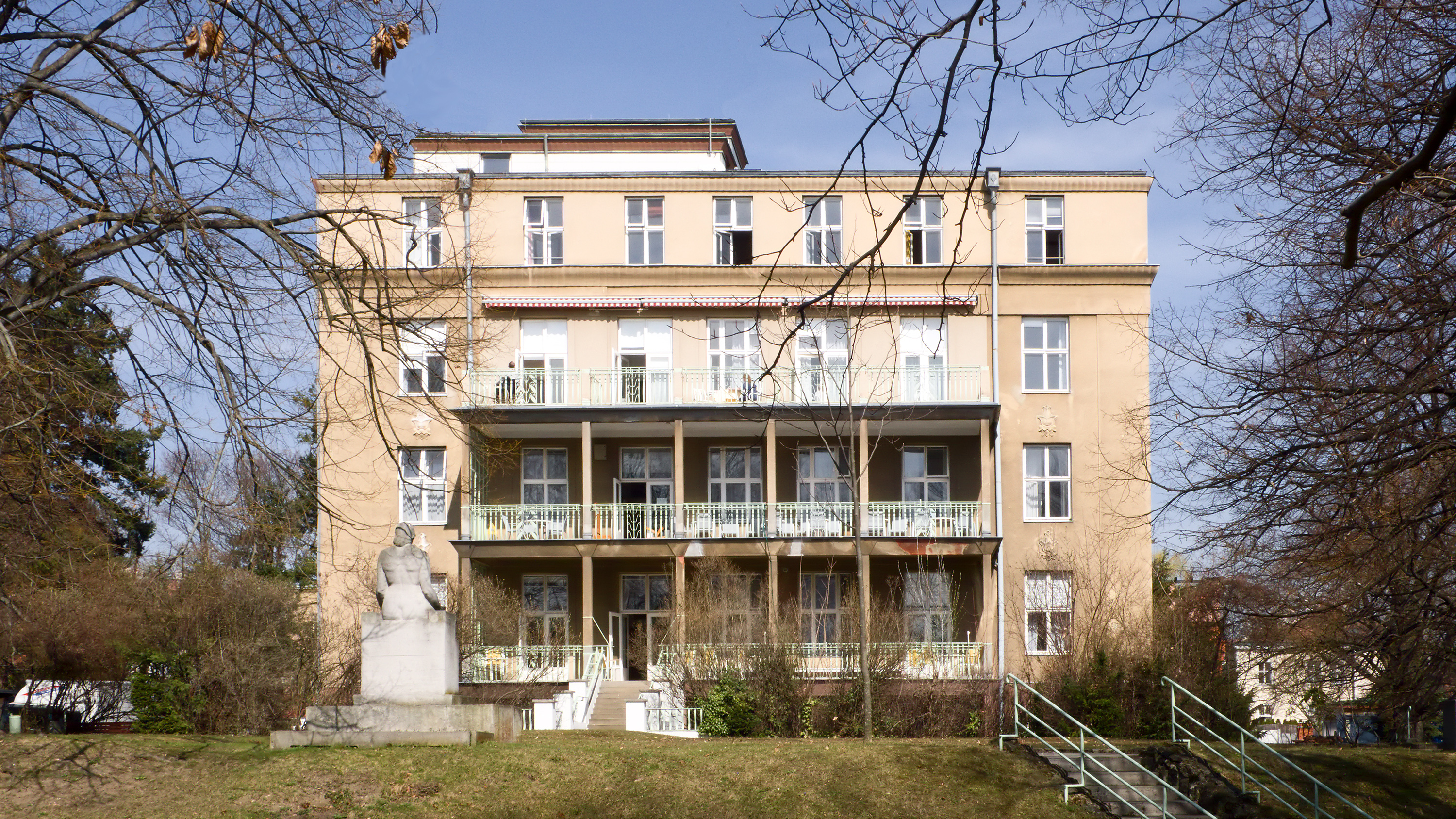 Hospital Orthopädisches Krankenhaus Gersthof in Vienna Währing